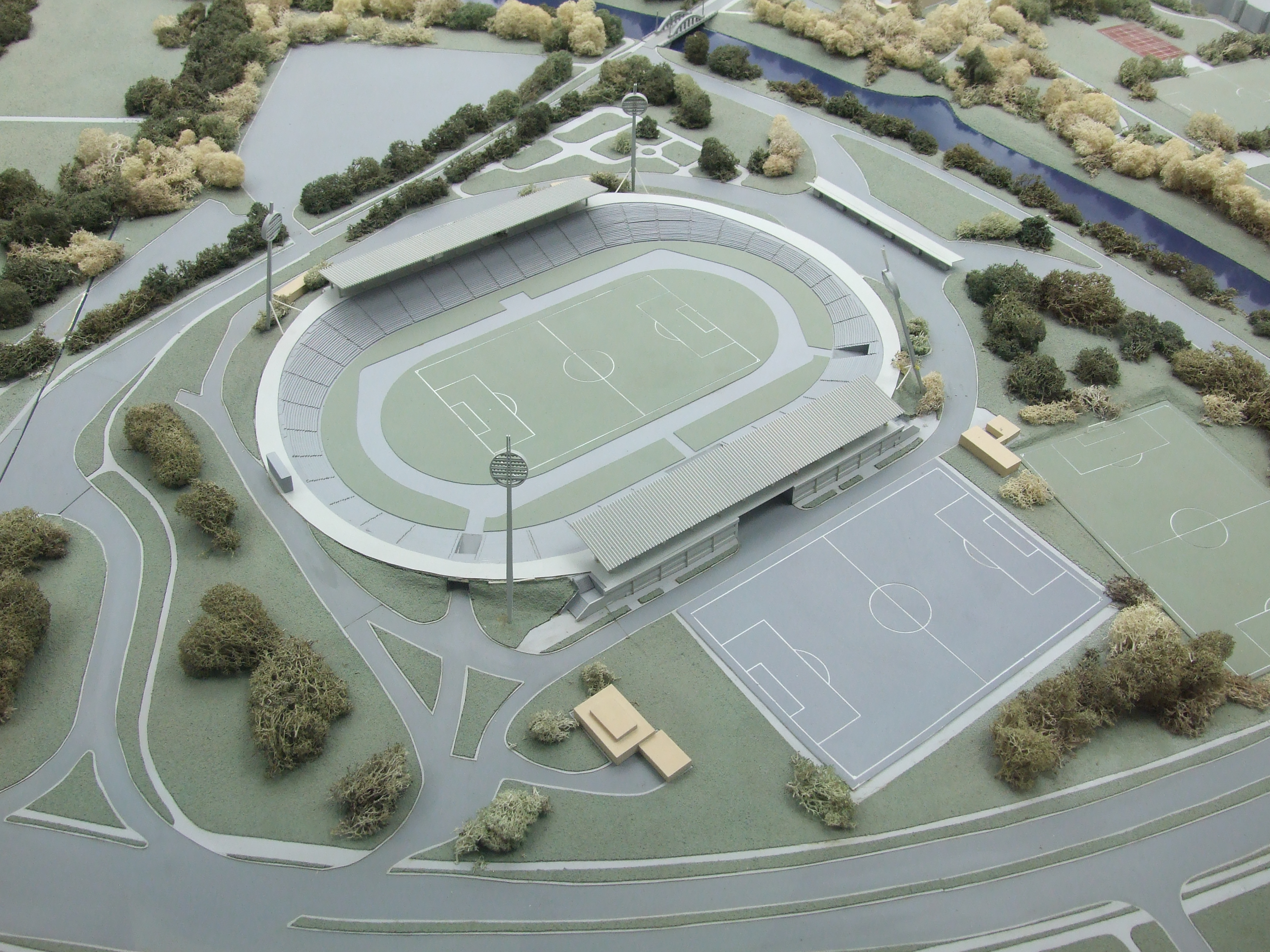 Exhibition item, Museum of Eastern Bohemia in Hradec Králové, Czech Republic